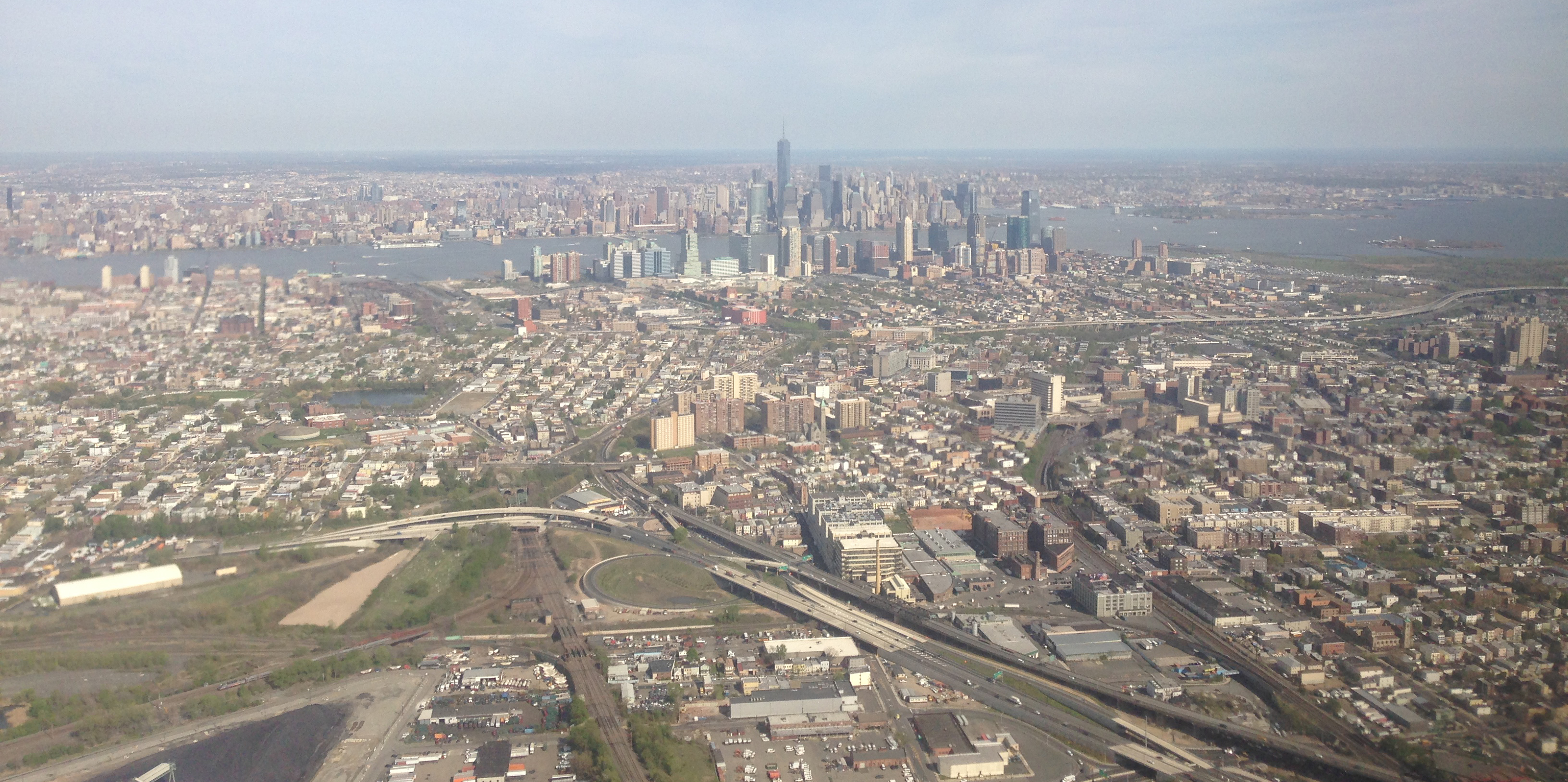 View looking east to Jersey City with US Route 1/9 in foreground and Hudson River and Lower Manhattan in background